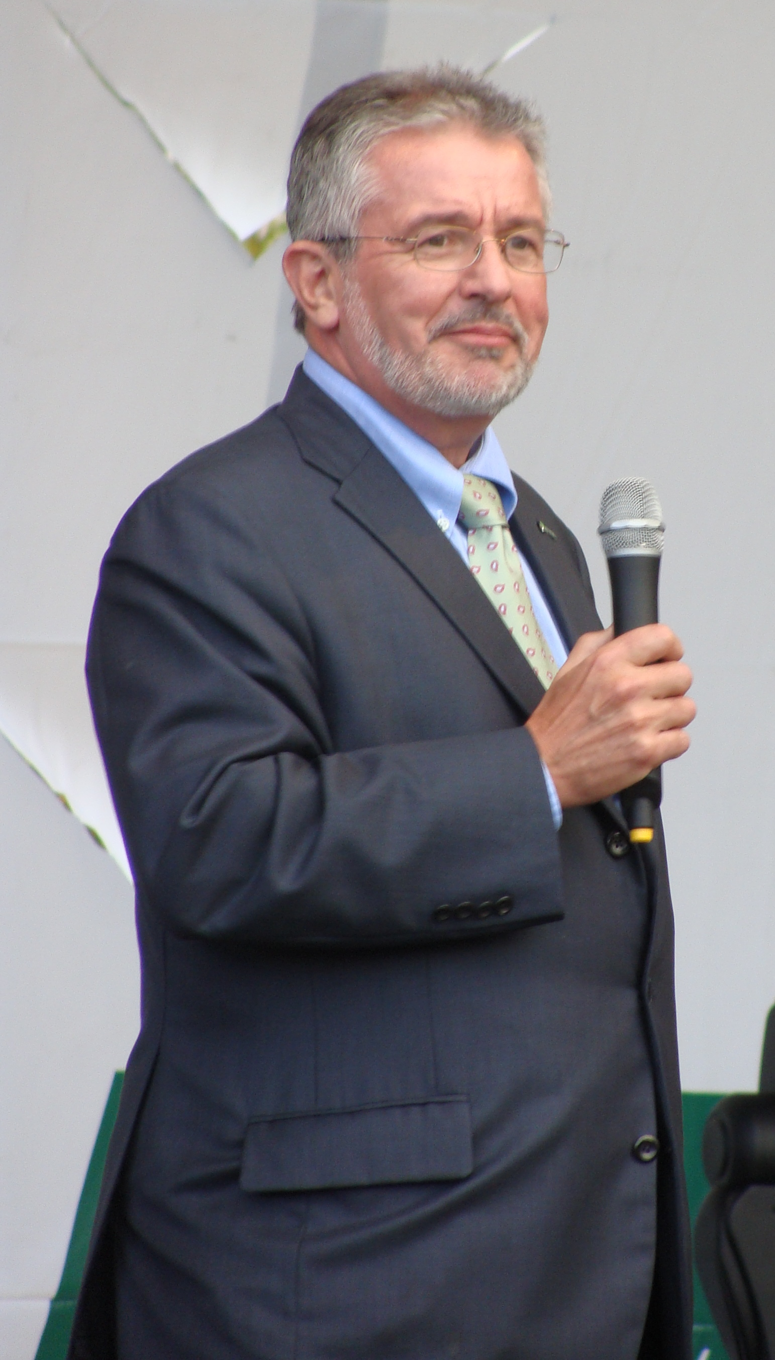 Paul Herbert